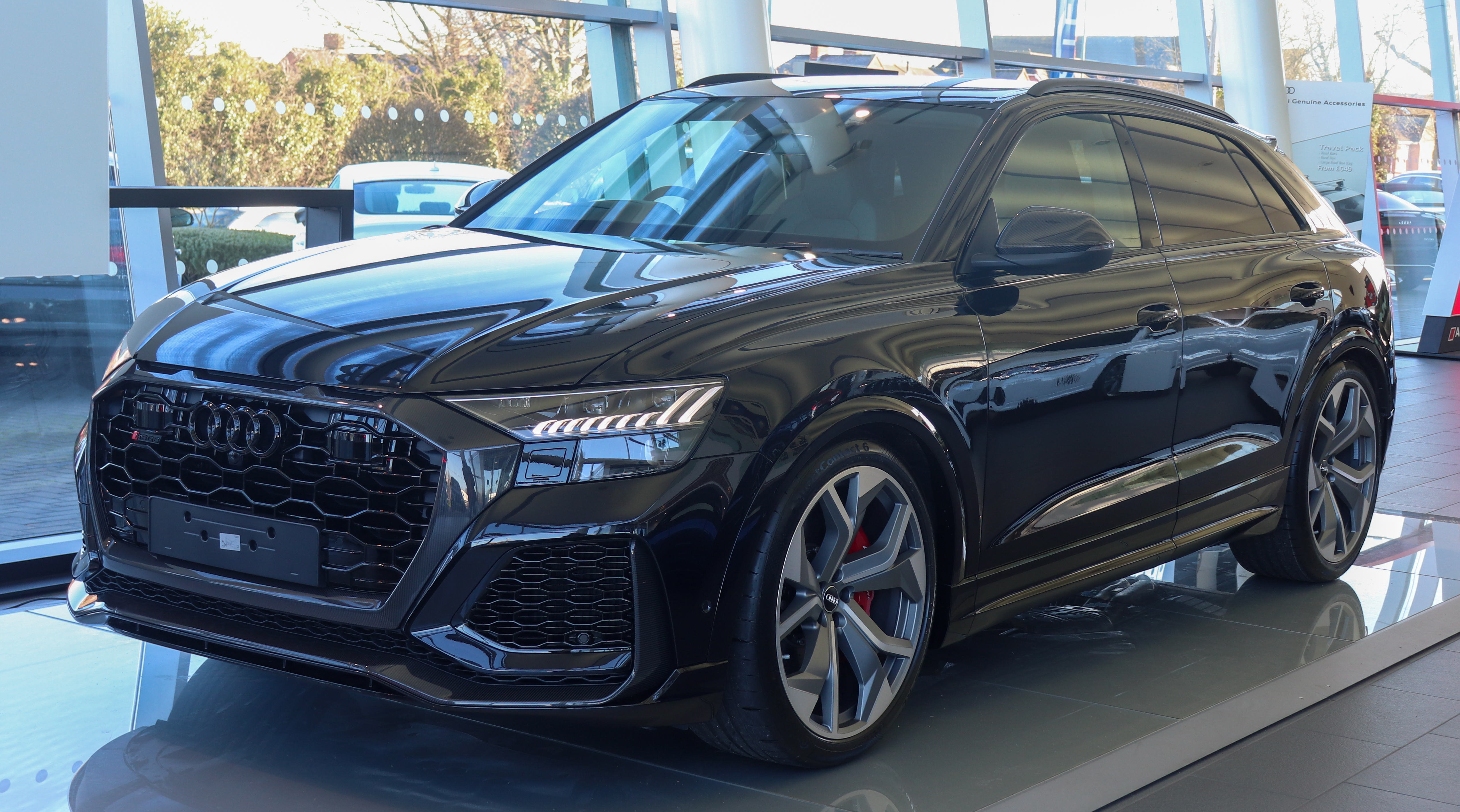 2019 Audi RS Q8 Front Taken in Listers Birmingham Audi, Shirley, Solihull